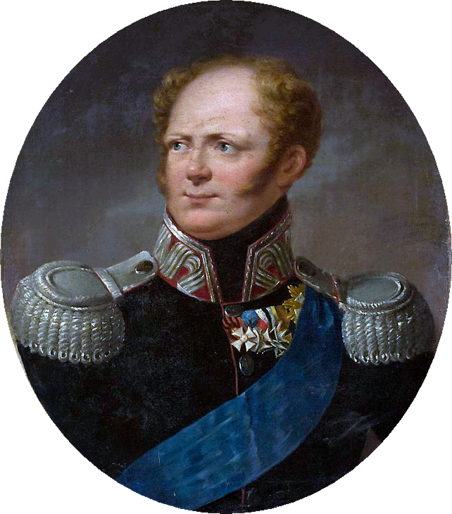 Emperor Alexander I of Russia by Alexander Molinari 1813